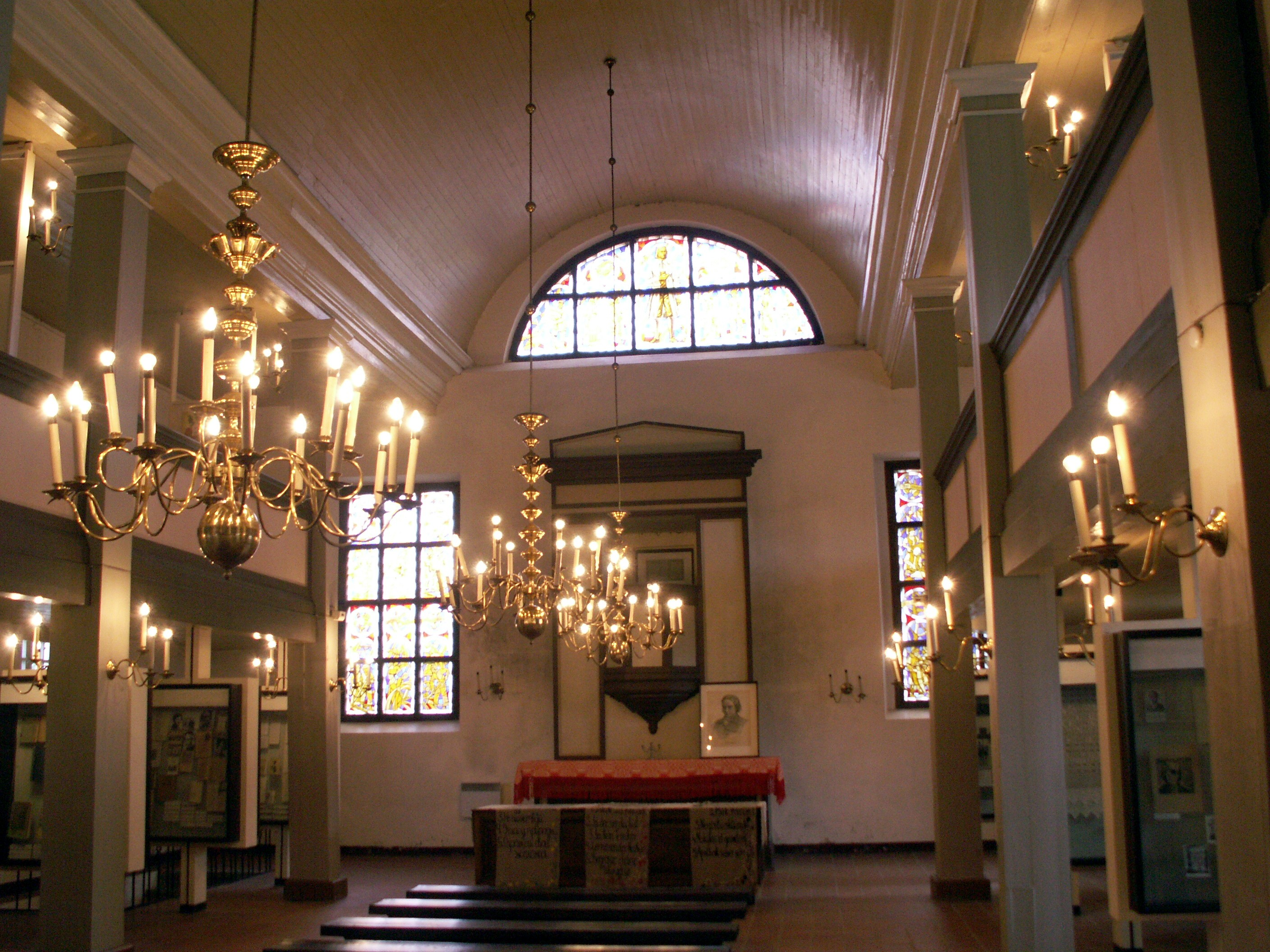 Chistye Prudy in Kaliningrad oblast. Museum of Kristijonas Donelaitis